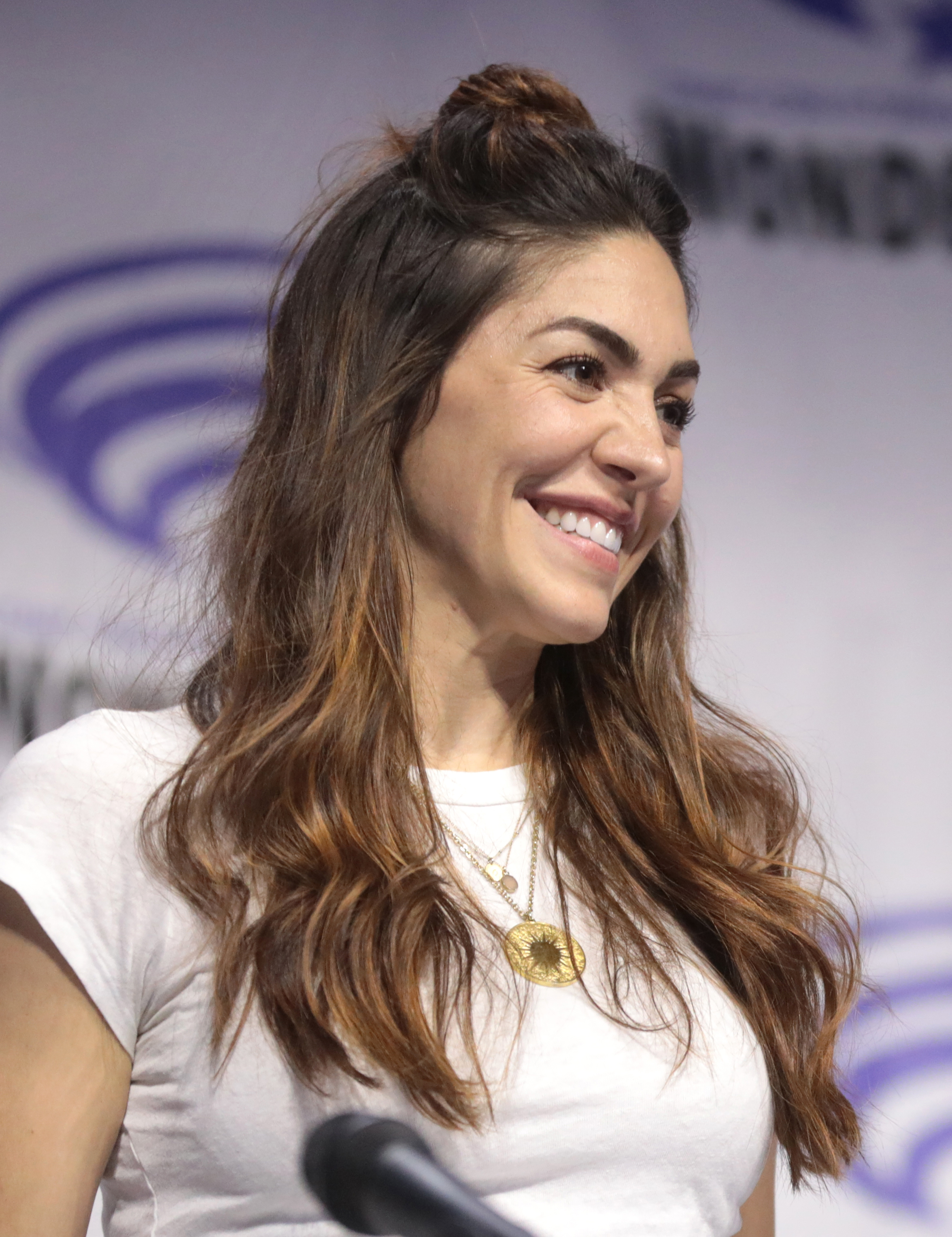 Natalia Cordova-Buckley at the 2019 WonderCon in Anaheim, California.